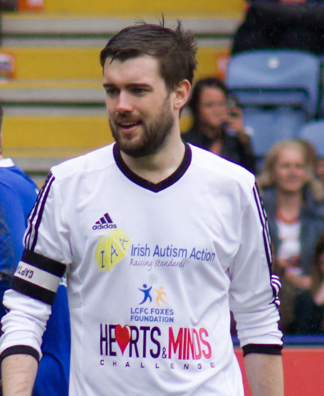 Jack Whitehall at a charity football game organised by Niall Horan